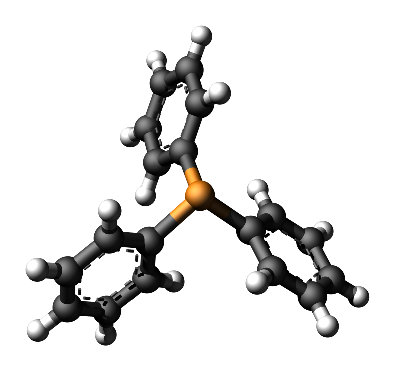 Ball-and-stick model, rendered in POV-Ray, of triphenylphosphine, as found in crystalline form. X-ray crystallographic data from B. J. Dunne and A. G. Orpen (1991). "Triphenylphosphine: a redetermination". Acta Crystallographica Section C 47: 345-347.